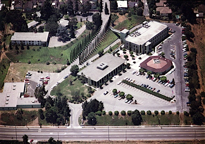 Narramore Christian Foundation Campus. Aerial photograph of the campus when in Rosemead, CA.